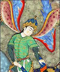 Painting of Angel Surush in The Shahnama of Shah Tahmasp